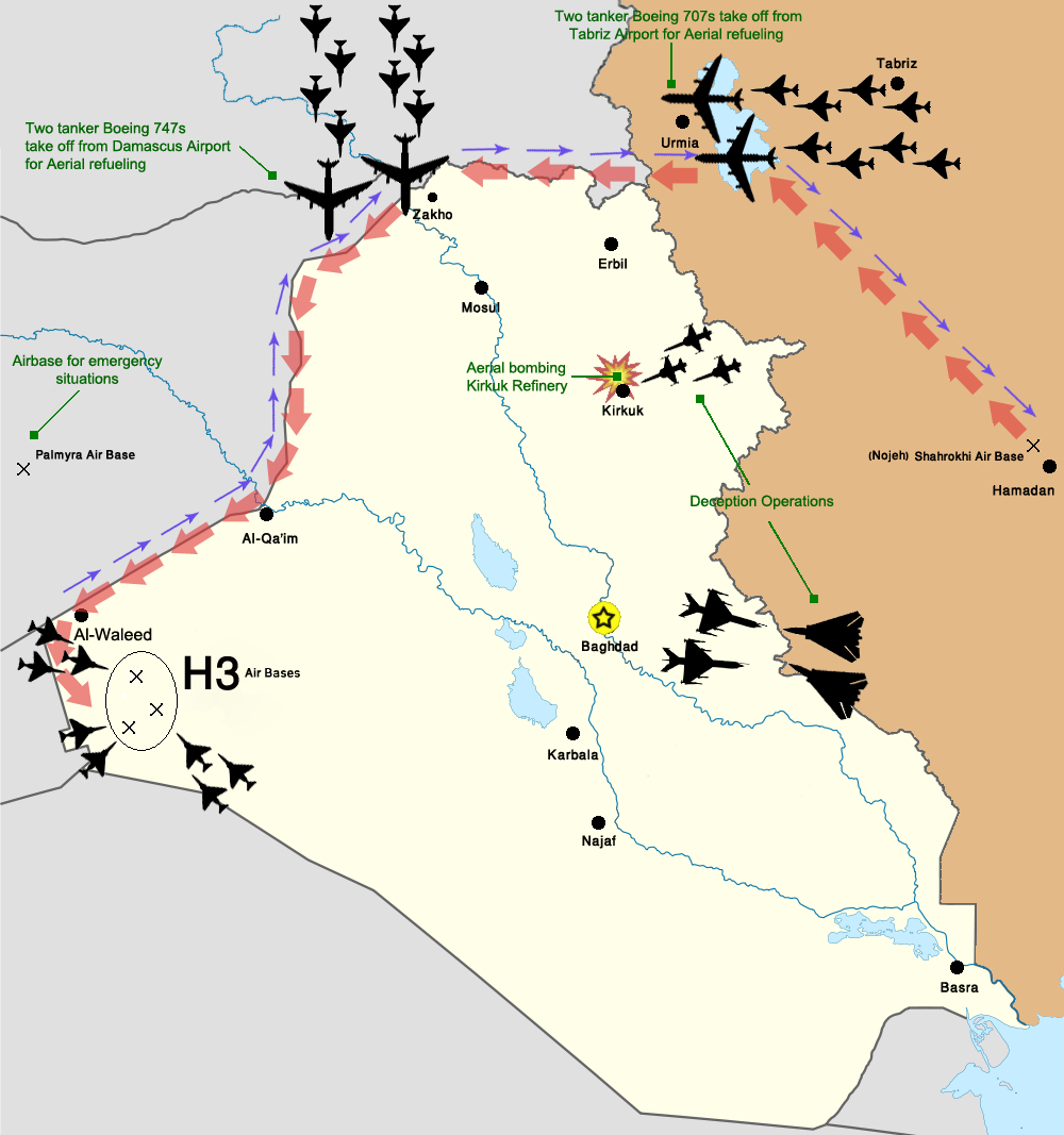 Operation_H3_map.